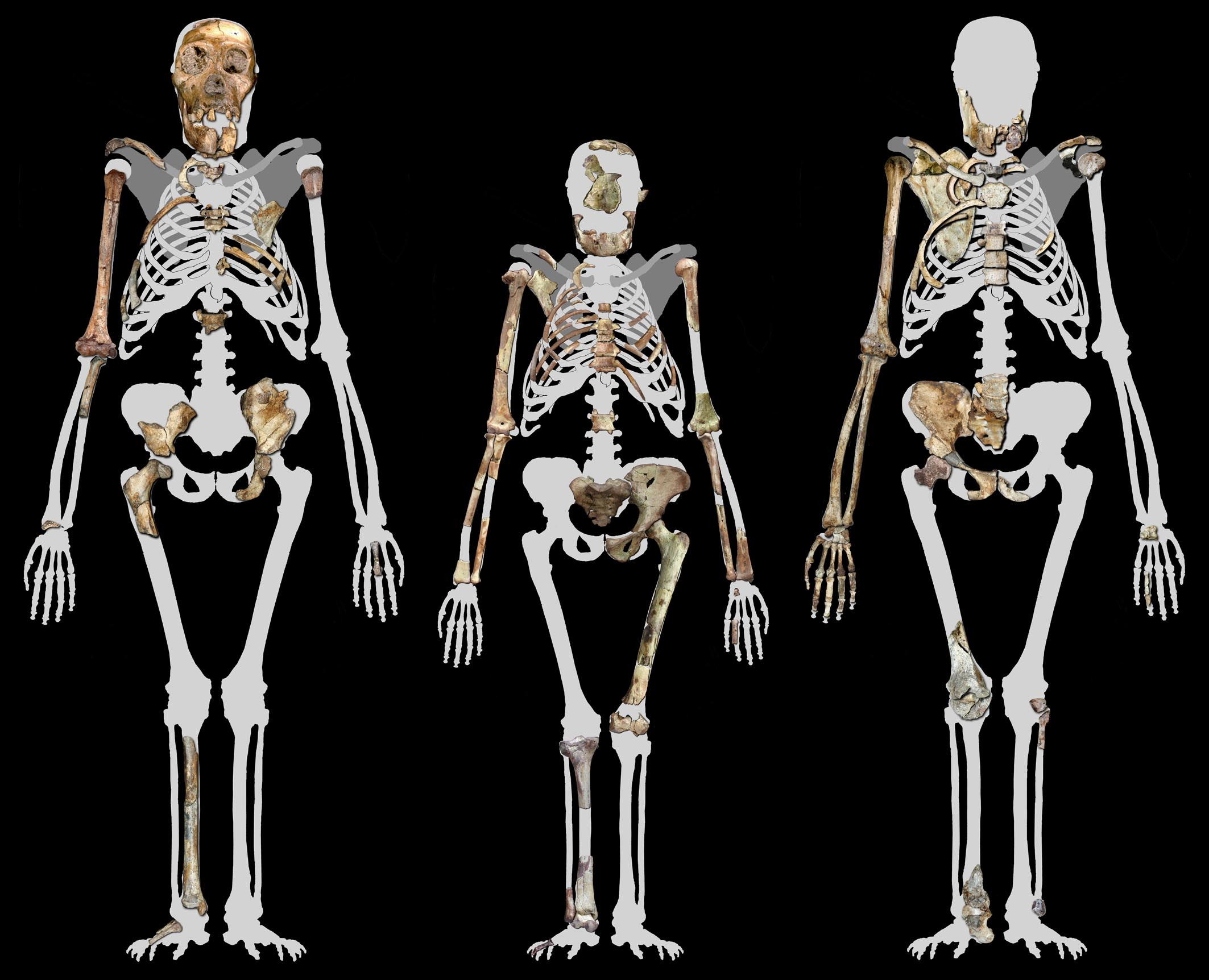 Malapa Hominin 1 (MH1) left, Lucy (AL 288-1 (Centre), and Malapa Hominin 2 (MH2) right. Image compiled by Peter Schmid courtesy of Lee R. Berger, University of the Witwatersrand.